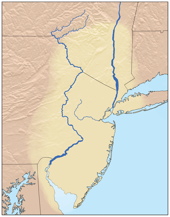 Map showing the Lenapehoking region. Boundaries and rivers are from USGS data. Lenapehoking region is based on this map.